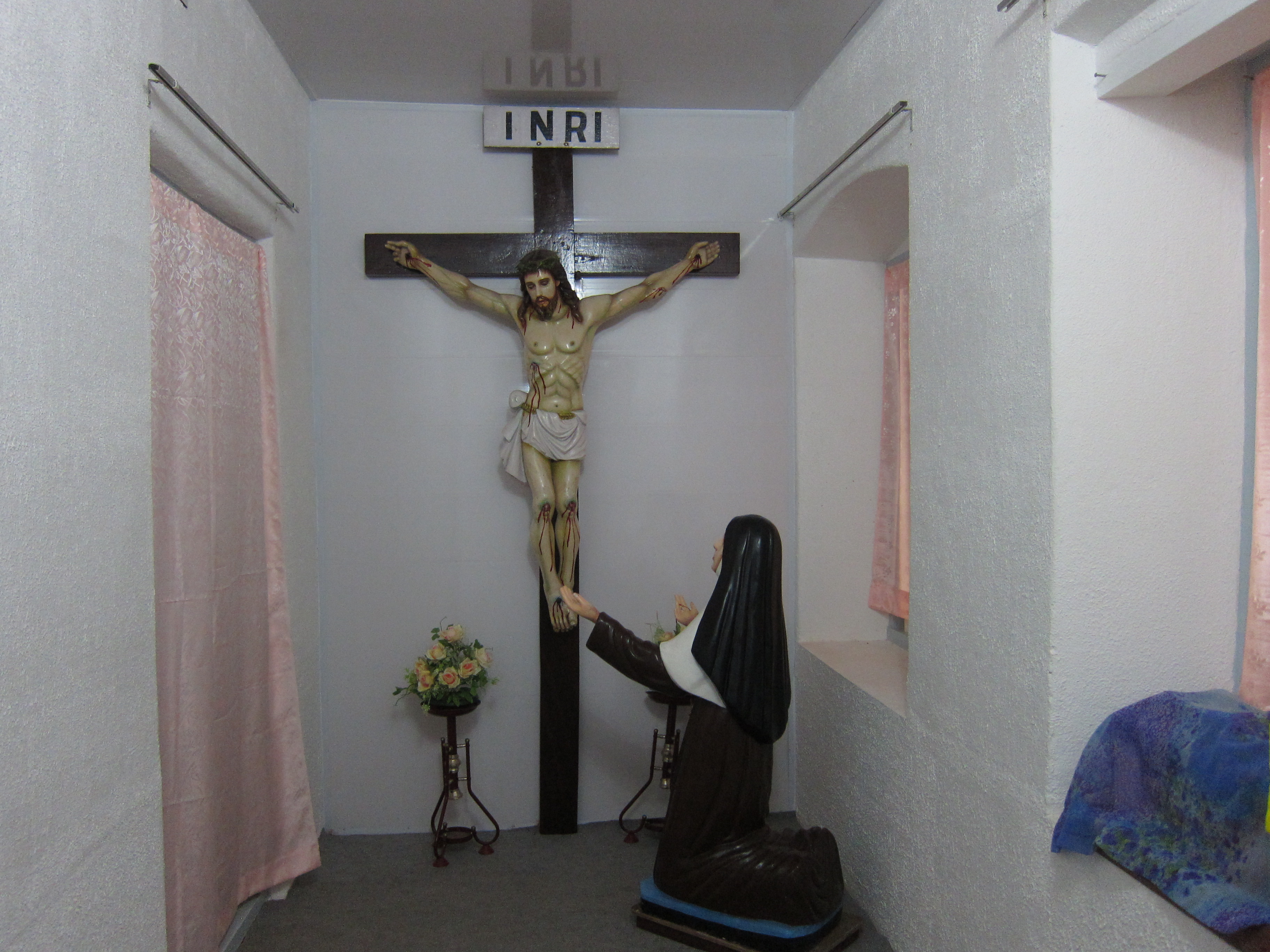 Mariam Thresia - മറിയം ത്രേസ്യ Kuzhikkattussery കുഴിക്കാട്ടുശ്ശേരി Mala Panhchayat മാള പഞ്ചായത്ത് Thrissur District തൃശ്ശൂർ ജില്ല